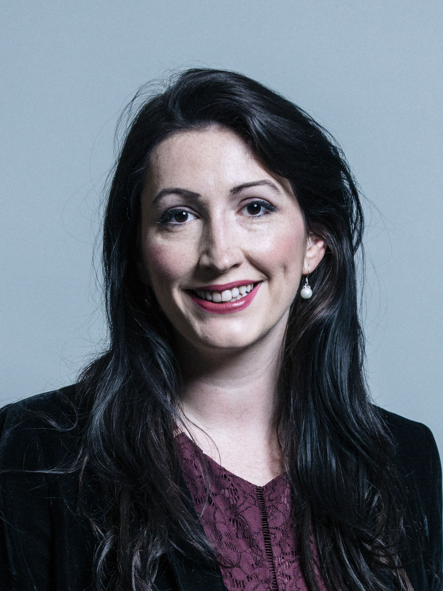 Official portrait of Emma Little Pengelly